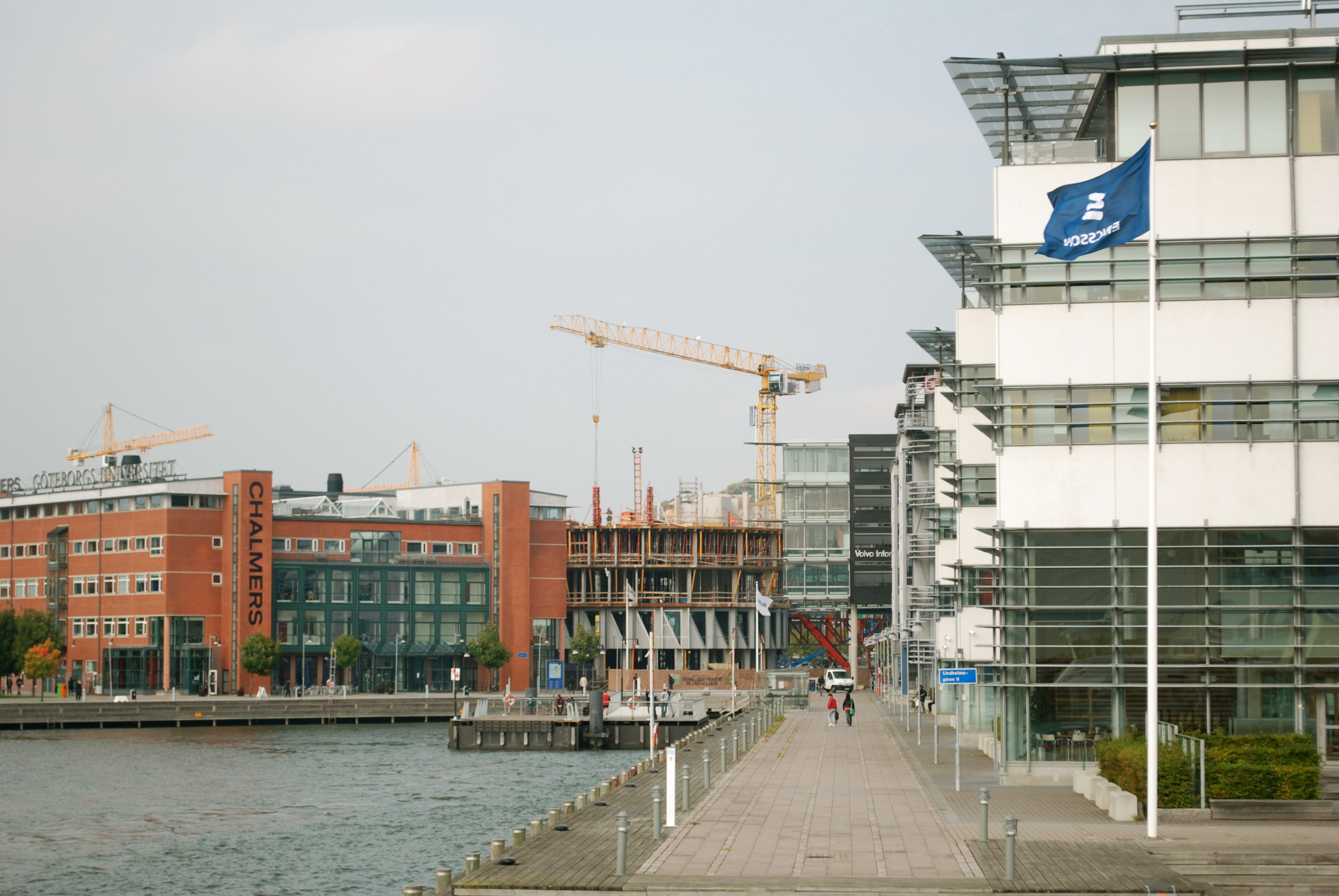 Lindholmspiren, september 2010.